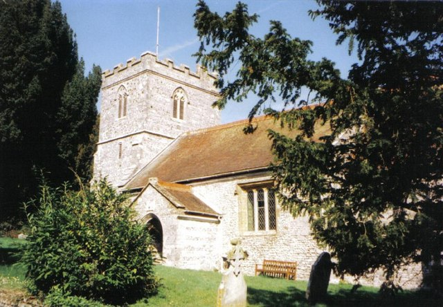 Milborne St. Andrew: parish church of St. Andrew Another Dorset church with a 15th-century tower and much rebuilding/restoration in the 19th.